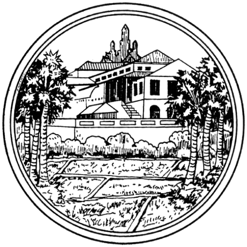 Provincial seal of Phetchaburi province.